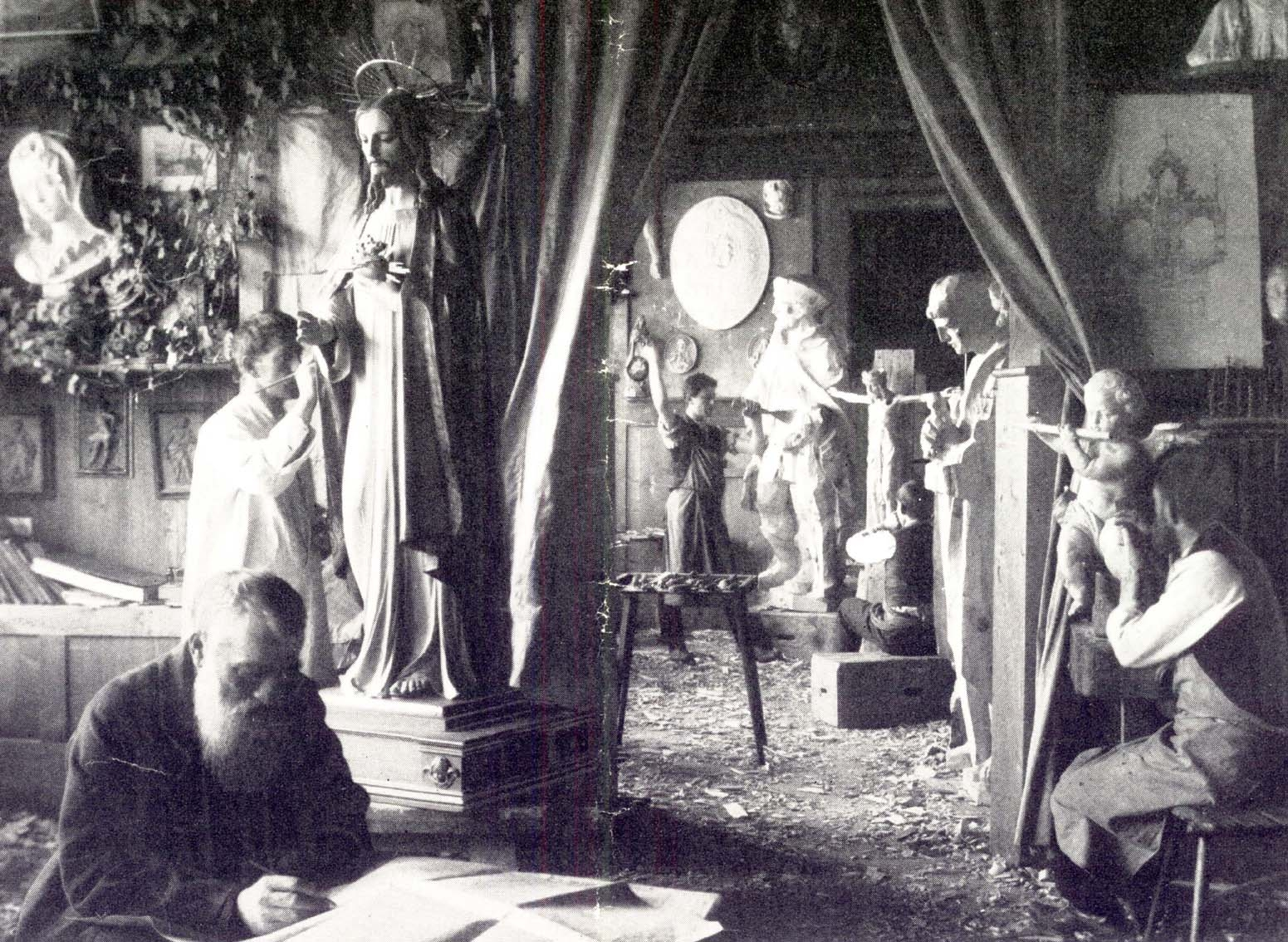 The Laboratory of the Gebrueder Moroder in the House Lenert in Ortisei - on the left Franz Moroder and on the right the artist Ludwig Moroder.